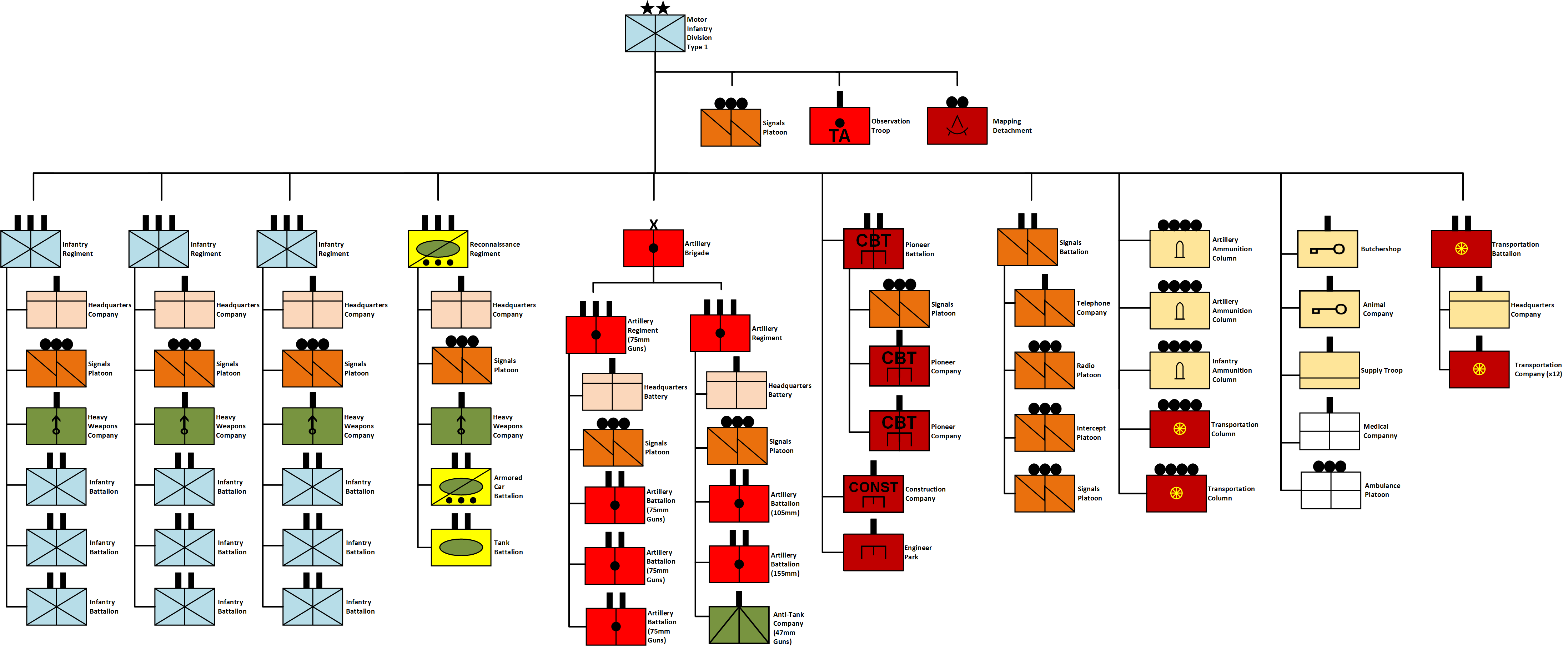 French Type 1 Motor Infantry Division May 1940